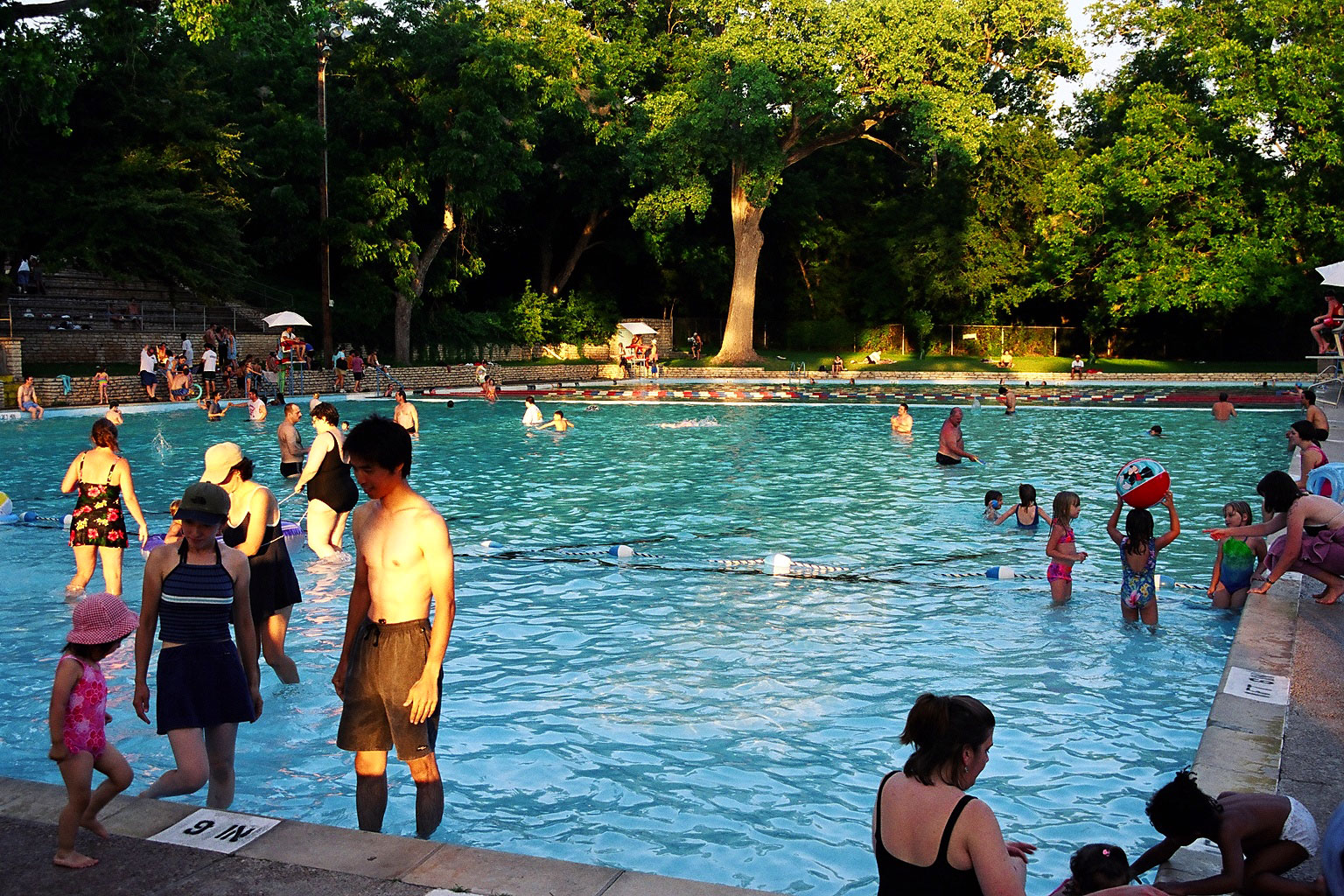 Deep Eddy Pool located at 30.2765° -97.7732°,Austin, Texas, United States. The structure was listed on the National Register of Historic Places in 2003.